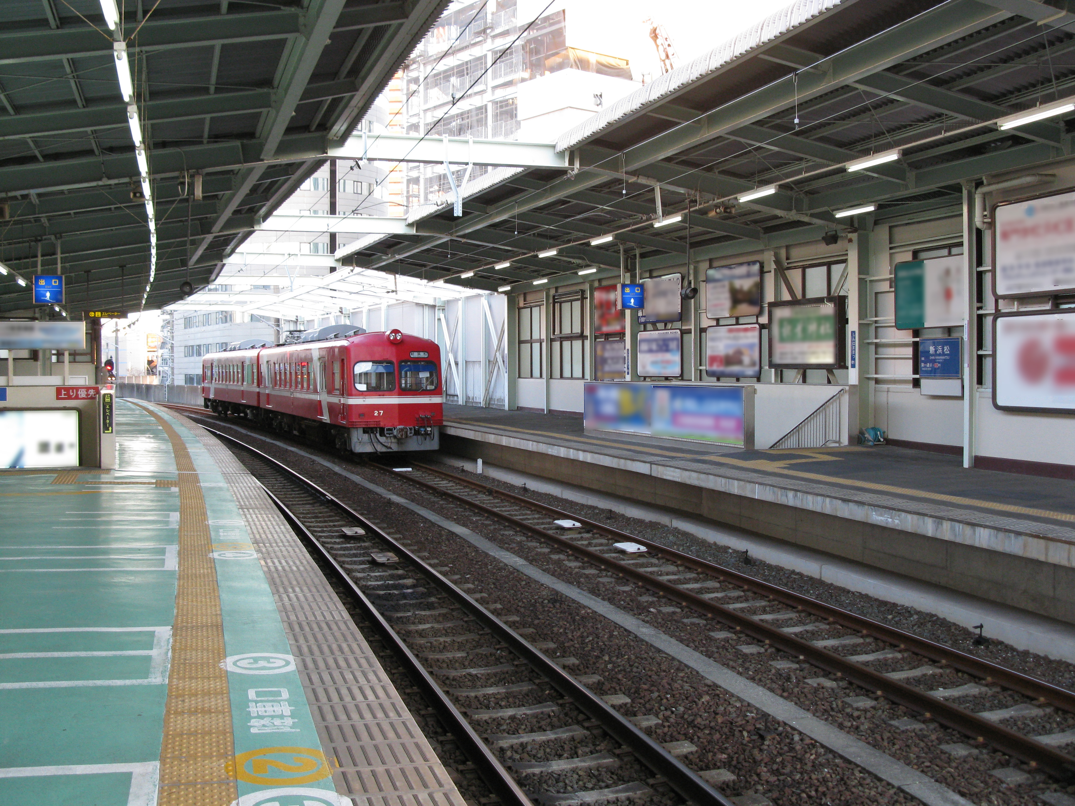 Shin-Hamamatsu Station platform (Enshū Railway Line)